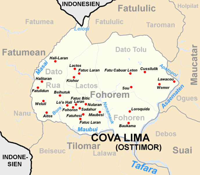 Administrative map of the Fohorem administrative post of East Timor